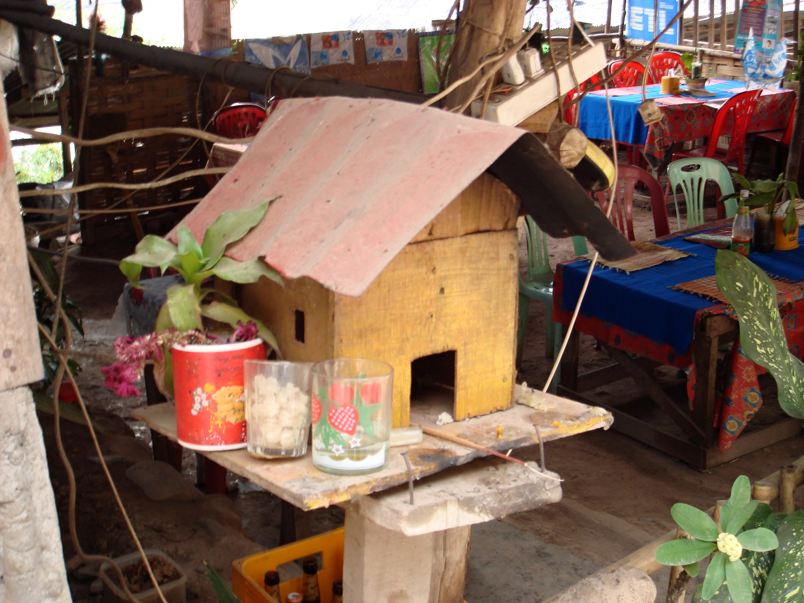 A house of spirits in Pak Beng (Oudomxay Province, Laos).